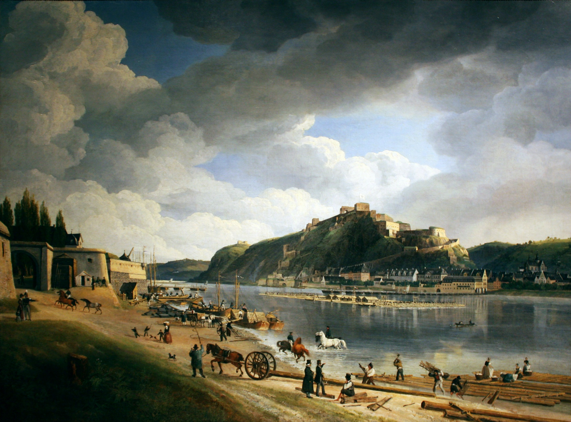 Johann Adolf Lasinsky: Koblenz-Ehrenbreitstein, 1828